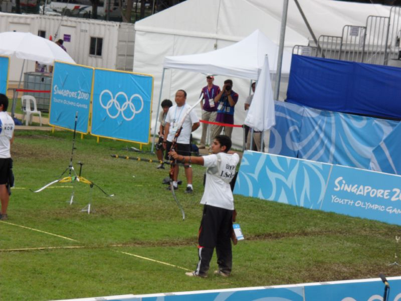 Egyptian archer Ibrahim Sabry at the Junior Men's Individual archery competition of the 2010 Summer Youth Olympics taking place at Kallang Field, Singapore.